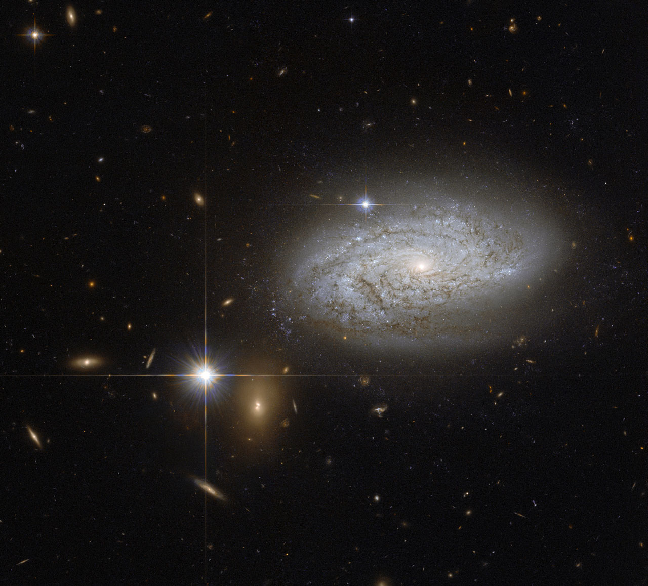 This NASA/ESA Hubble Space Telescope image shows the spiral galaxy NGC 3021 which lies about 100 million light-years away in the constellation of Leo Minor (The Little Lion). Among many other types of stars, this galaxy contains Cepheid variable stars, which can be used work out the distance to the galaxy. These stars pulsate at a rate that is closely related to their intrinsic brightness, so measurements of their rate of pulsation and their observed brightness give astronomers enough information to calculate the distance to the galaxy itself. Cepheids are also used to calibrate an even brighter distance marker, that can be used over greater distances: Type Ia supernovae. One of these bright exploding stars was observed in NGC 3021, back in 1995. In addition, the supernova in NGC 3021 was also used to refine the measurement of what is known as the Hubble constant. The value of this constant defines how fast the Universe is expanding and the more accurately we know it the more we can understand about the evolution of the Universe in the past as well as in the future. So, there is much more to this galaxy than just a pretty spiral.